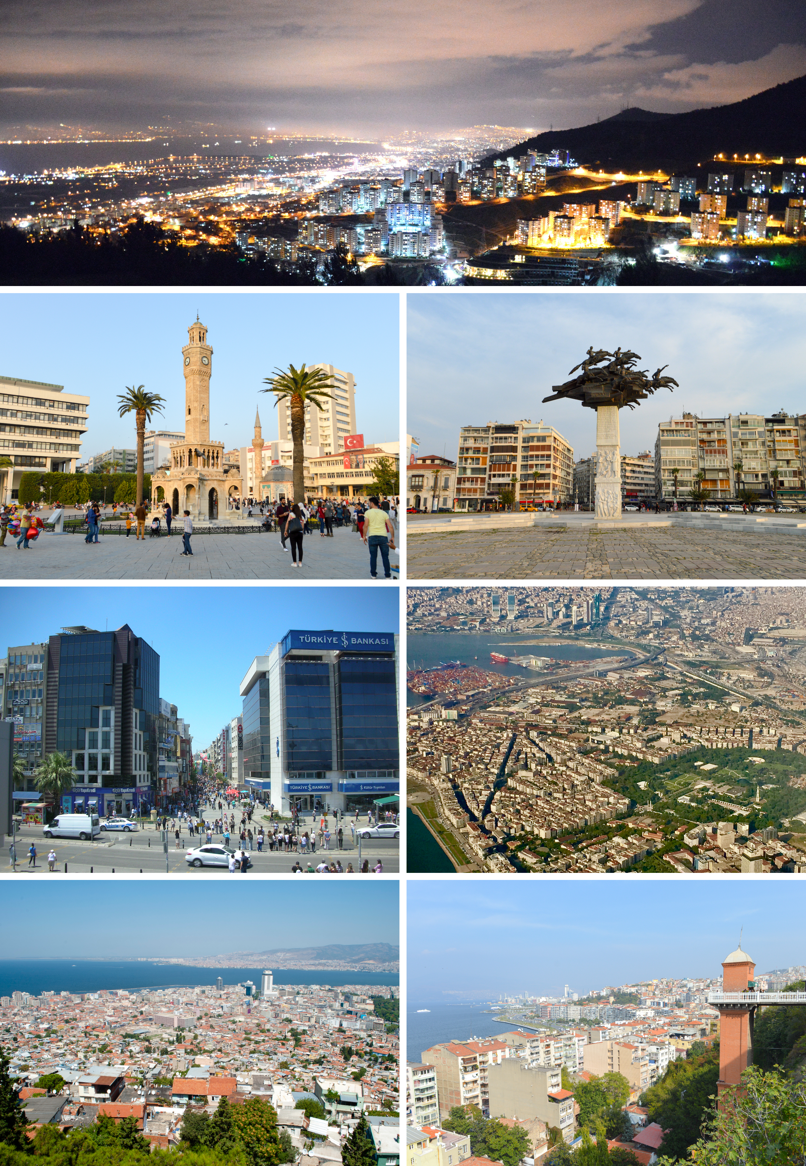 IzmirTürkçe: İzmir